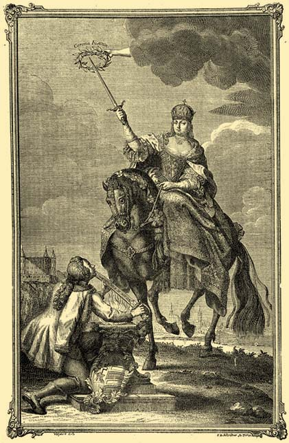 Maria Theresia, coronation in Pressburg (Bratislava), 1741